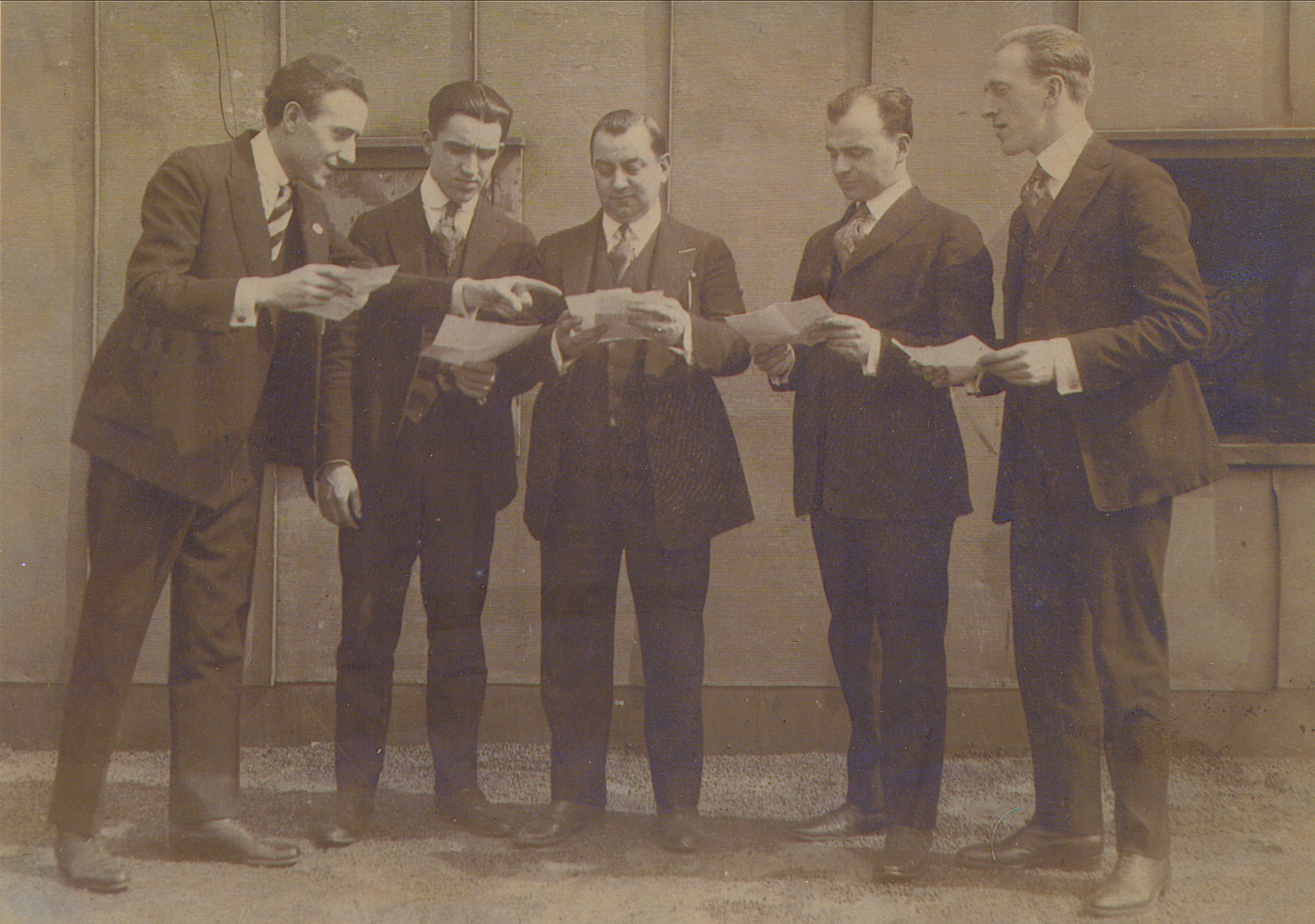 Members of the Louisiana Five jazz band looking over papers. Left to right: Anton Lada, Charles Panely, Alcide Nunez, Karl Berger, Joe Cawley.